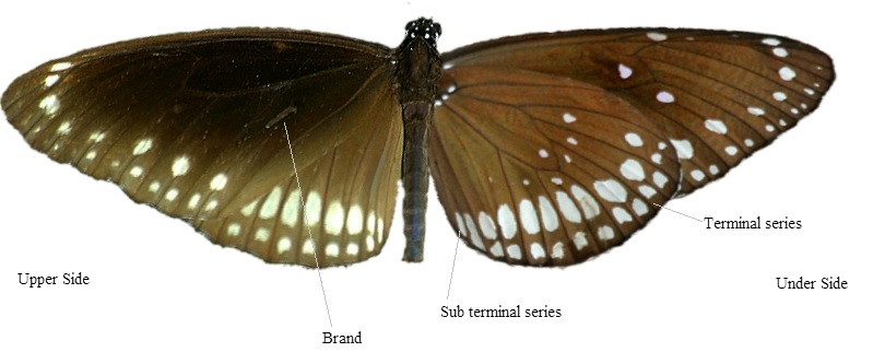 Derivative work showing comparison of underside and upperside of wings of Euploea core. Editing done using pixlr